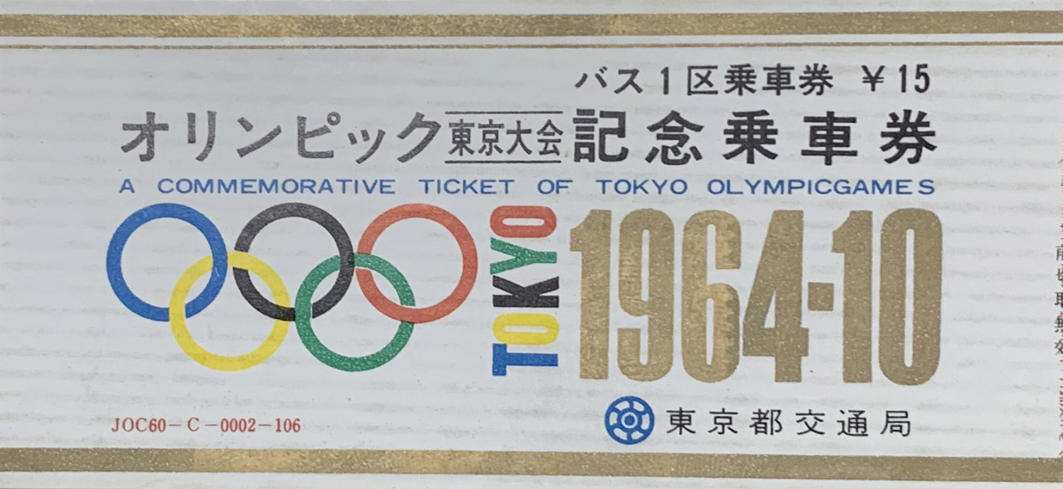 A Commemorative Ticket of Tokyo Olympicgames